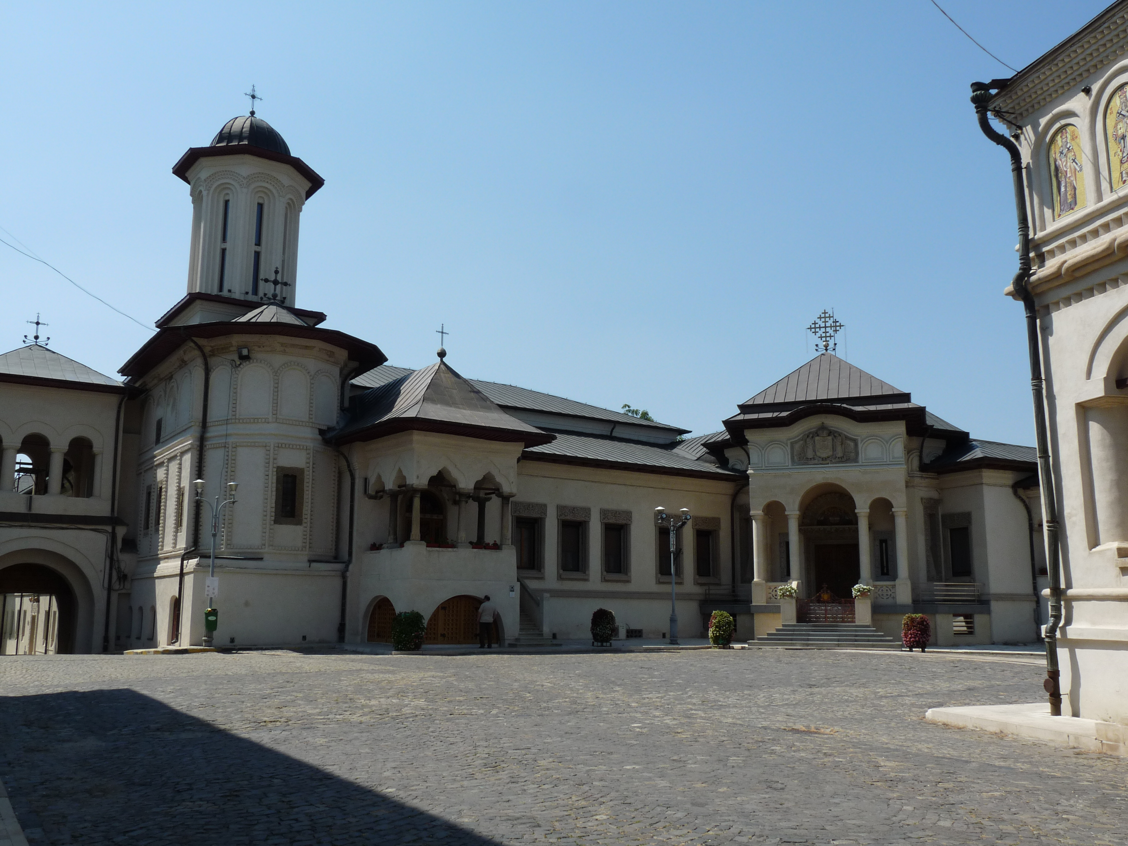 Patriarchal residence, Romanian Orthodox Patriarchy compound, Bucharest, RomaniaRomână: Reşedinţa patriarhală din complexul Patriarhiei Bisericii Ortodoxe Române, Bucureşti, România